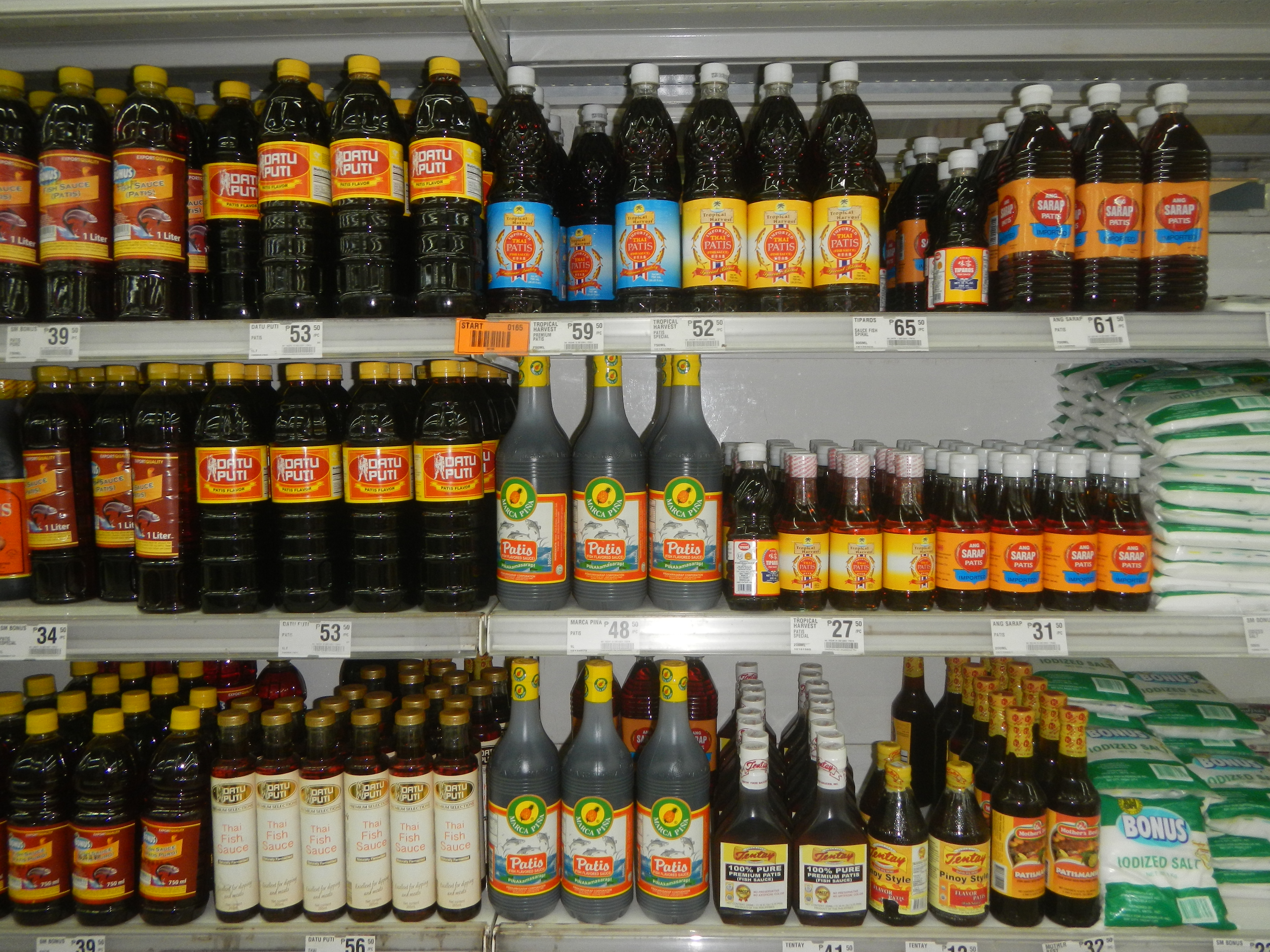 Bagoong Patis (fish sauce) and Soy sauce of the Philippines (Note: Judge Florentino Floro, the owner, to repeat, Donor Florentino Floro of all these photos hereby donate gratuitously, freely and unconditionally all these photos to and for Wikimedia Commons, exclusively, for public use of the public domain, and again without any condition whatsoever).